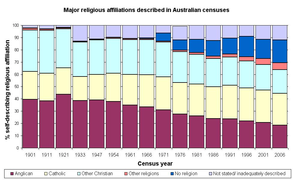 Graph prepared from data published by the Australian Bureau of Statistics at 1301.0 - Year Book Australia, 2008 : Cultural diversity concerning Religion in Australia